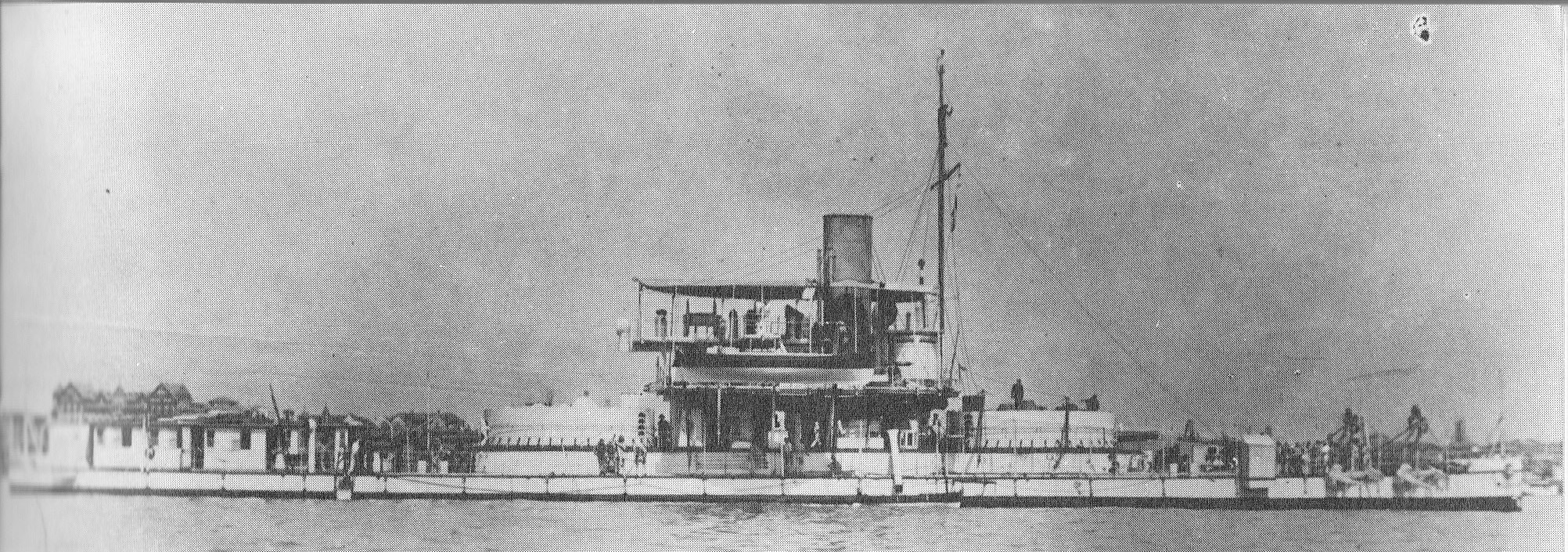 HMS Abyssinia served with the Navy of India until sold in 1903. This photo is taken after her refit with new guns in 1892. The Abyssinia spent her time at Bombay "more or less a stationaire" (Oscar Parkes), as indicated by the cabins aft.